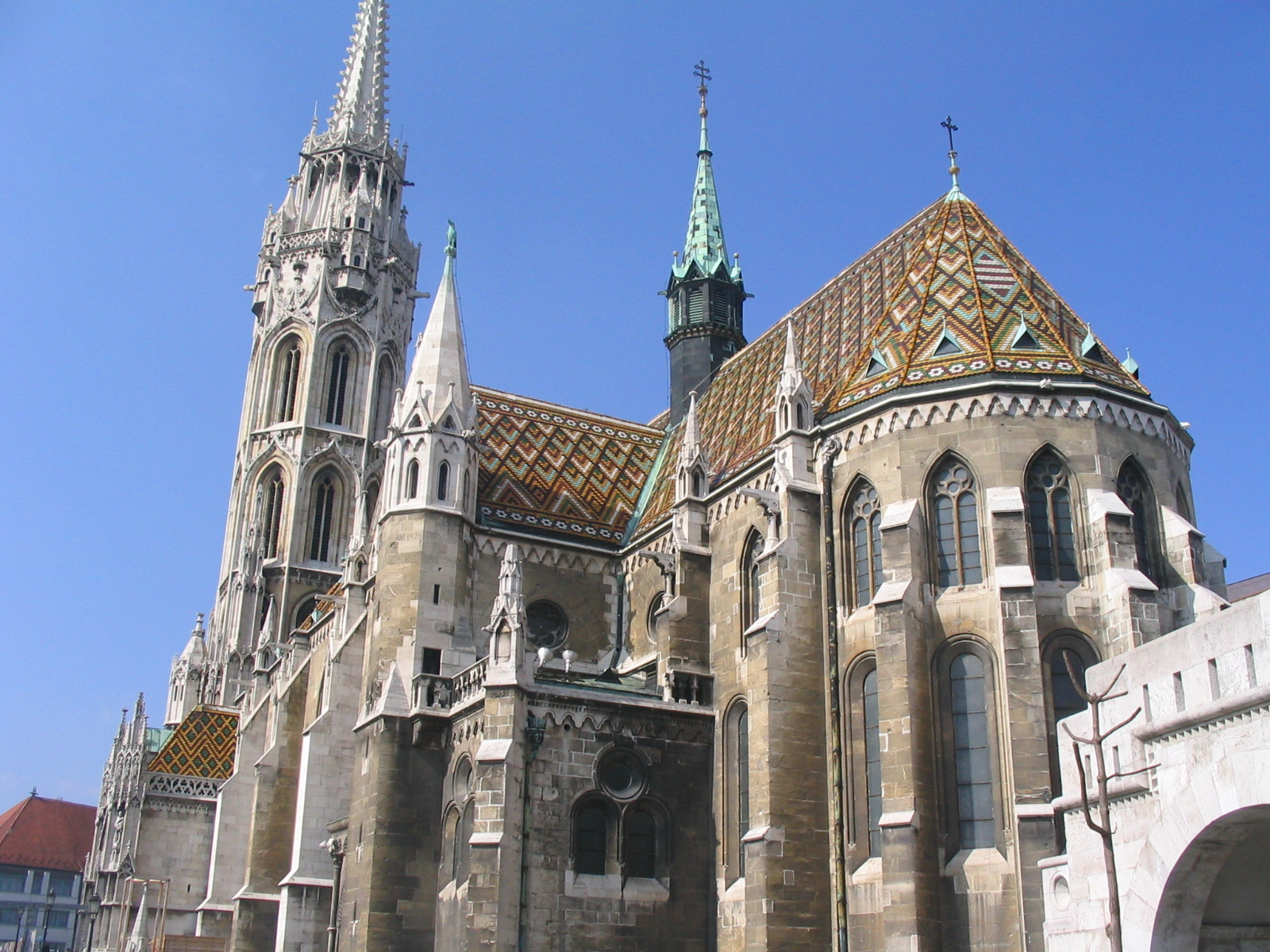 Matthias Church, Budapest